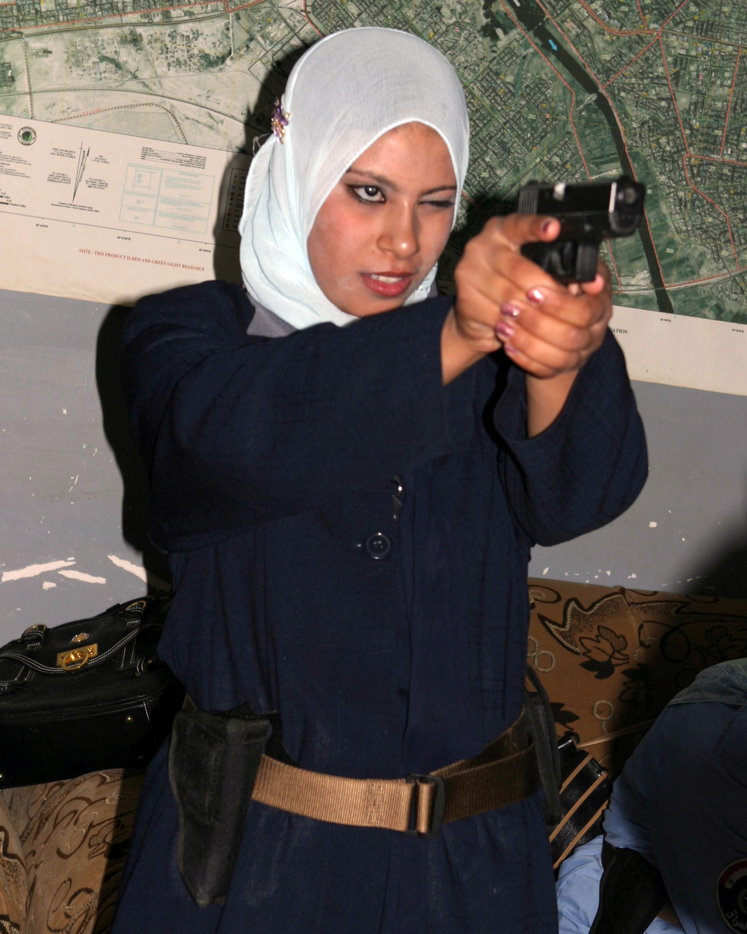 Female Iraqi police officers practice weapons handling techniques at the Forsan Police Station in Ramadi, Iraq, July 23, 2007. (U.S. Marine Corps photo by Staff Sgt. Michael Kropiewnicki) iraq